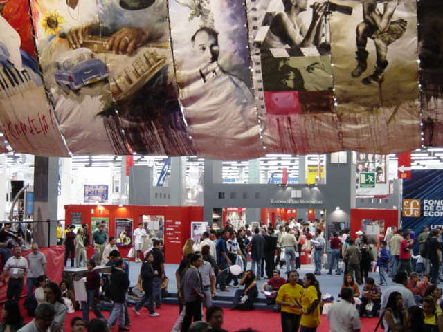 Expo GDL during FIL